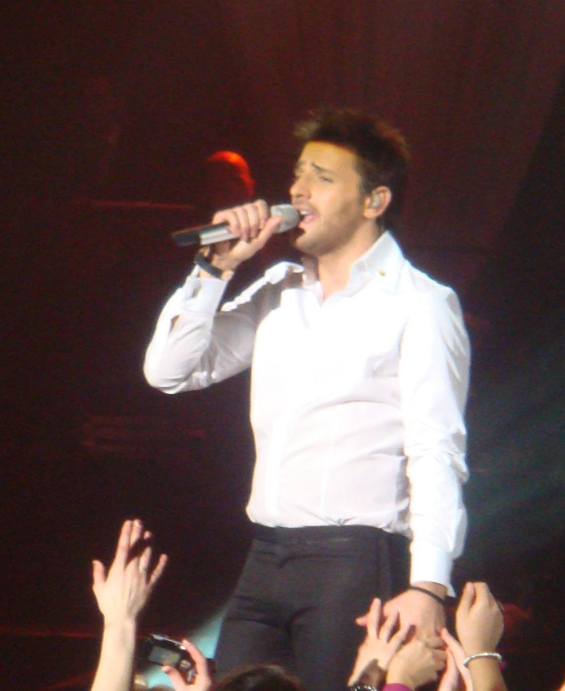 Greek singer Nikos Vertis during a concert in Hammersmith, London.